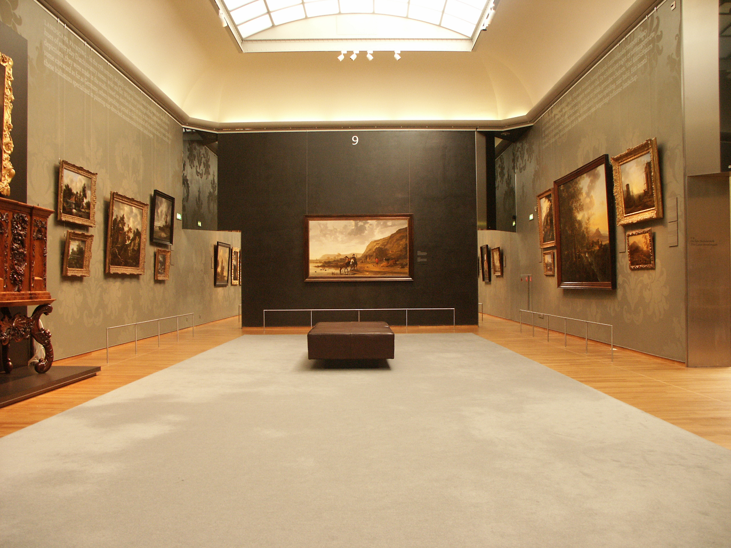 Taken in the Rijksmusem, Amsterdam, The Netherlands, in the summer of 2005. Picture by Justin V. A. Slater. All rights released by the author.